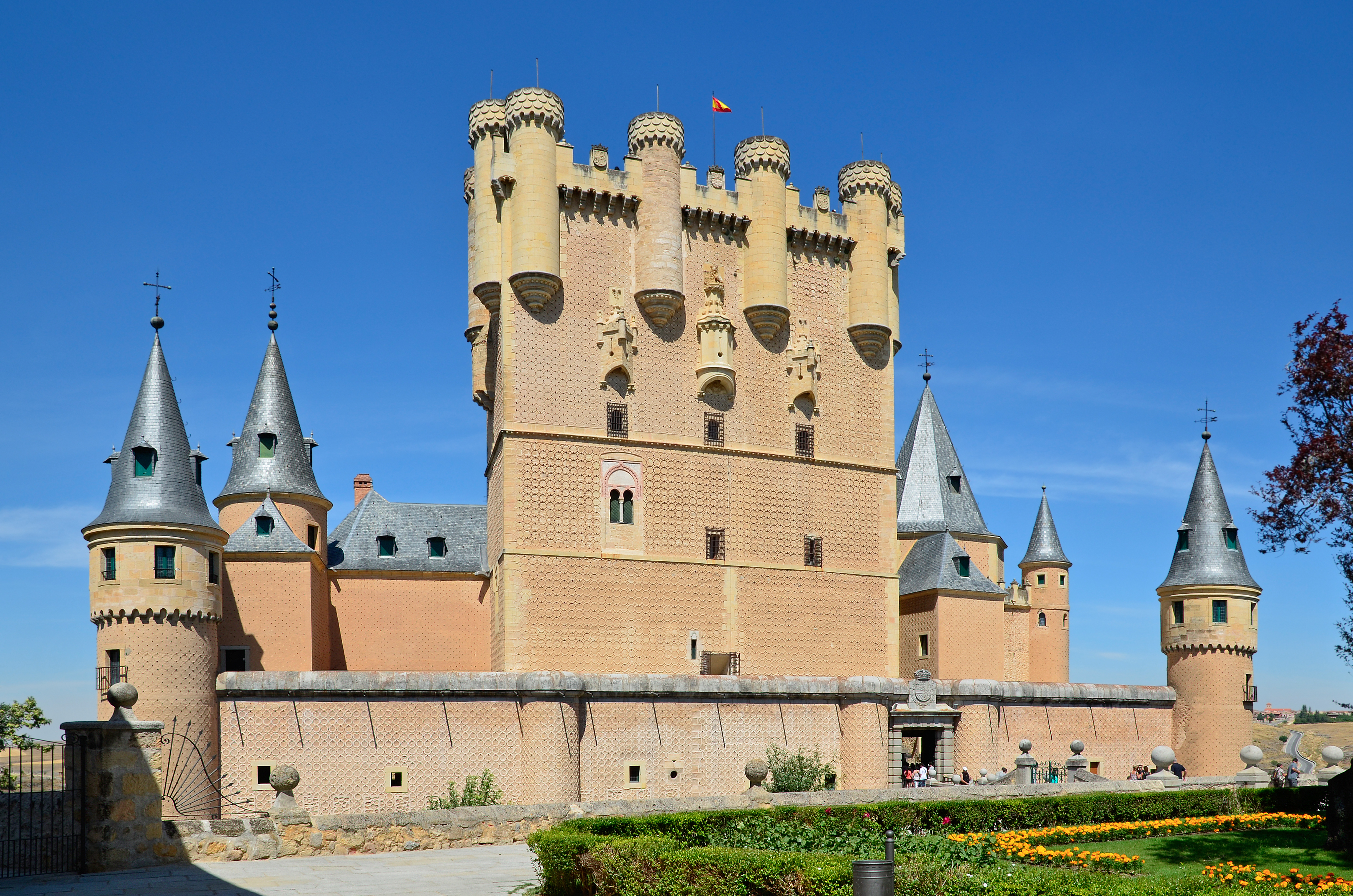 Main facade of the Alcazar of Segovia - Spain.